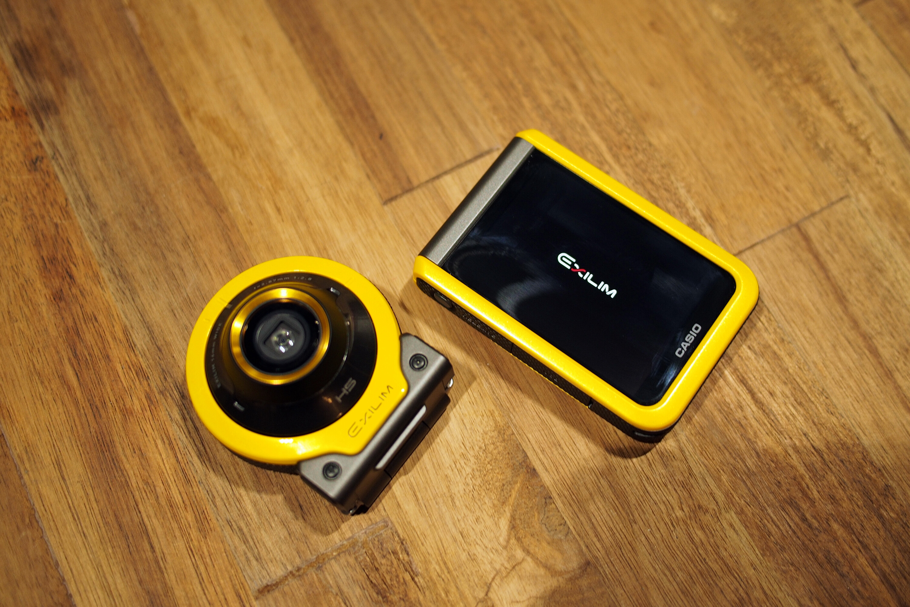 Casio EX-FR100, yellow version ,seperaterd.